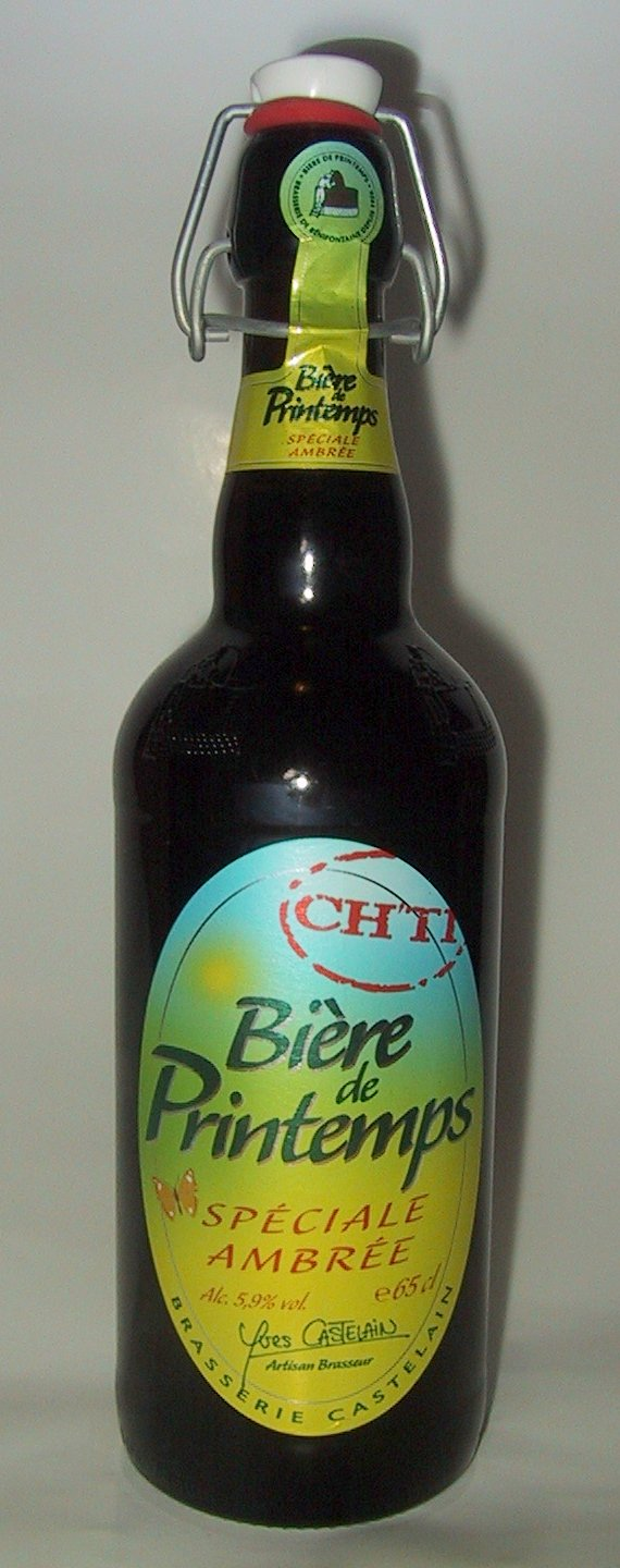 Chti bière de printemps (France) Picard: Chti bière dech bon tans (Pas-d'Caleus)